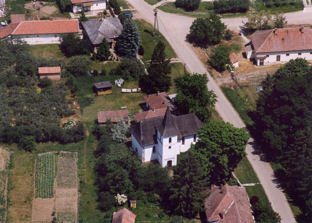 Szamosbecs, Hungary, aerial photography